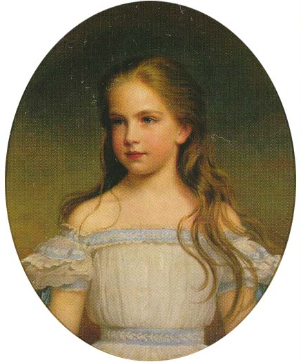 Archduchess Gisela of Austria as small child